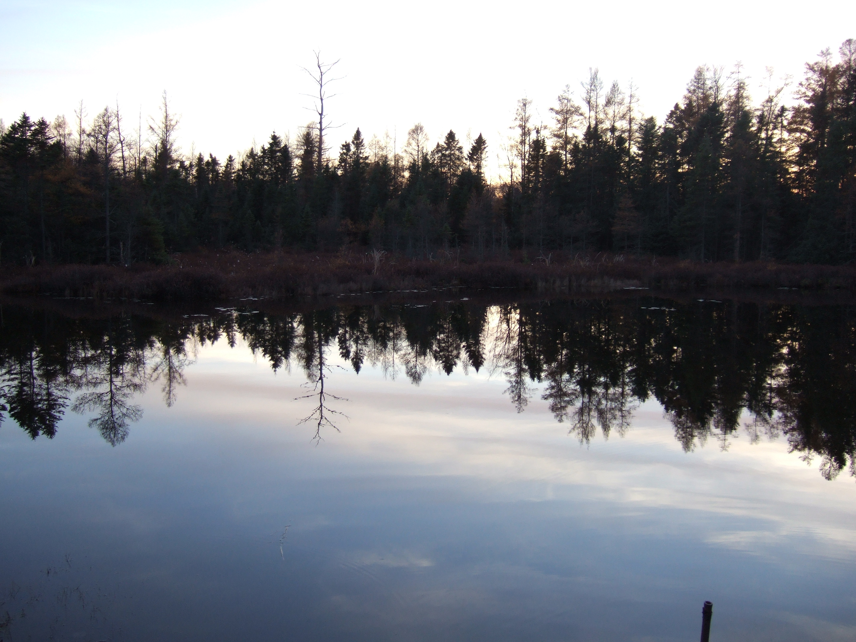 Redmonds Pond in Sifton Bog, London, ON, Canada